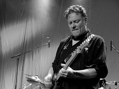 Fridrik Karlsson